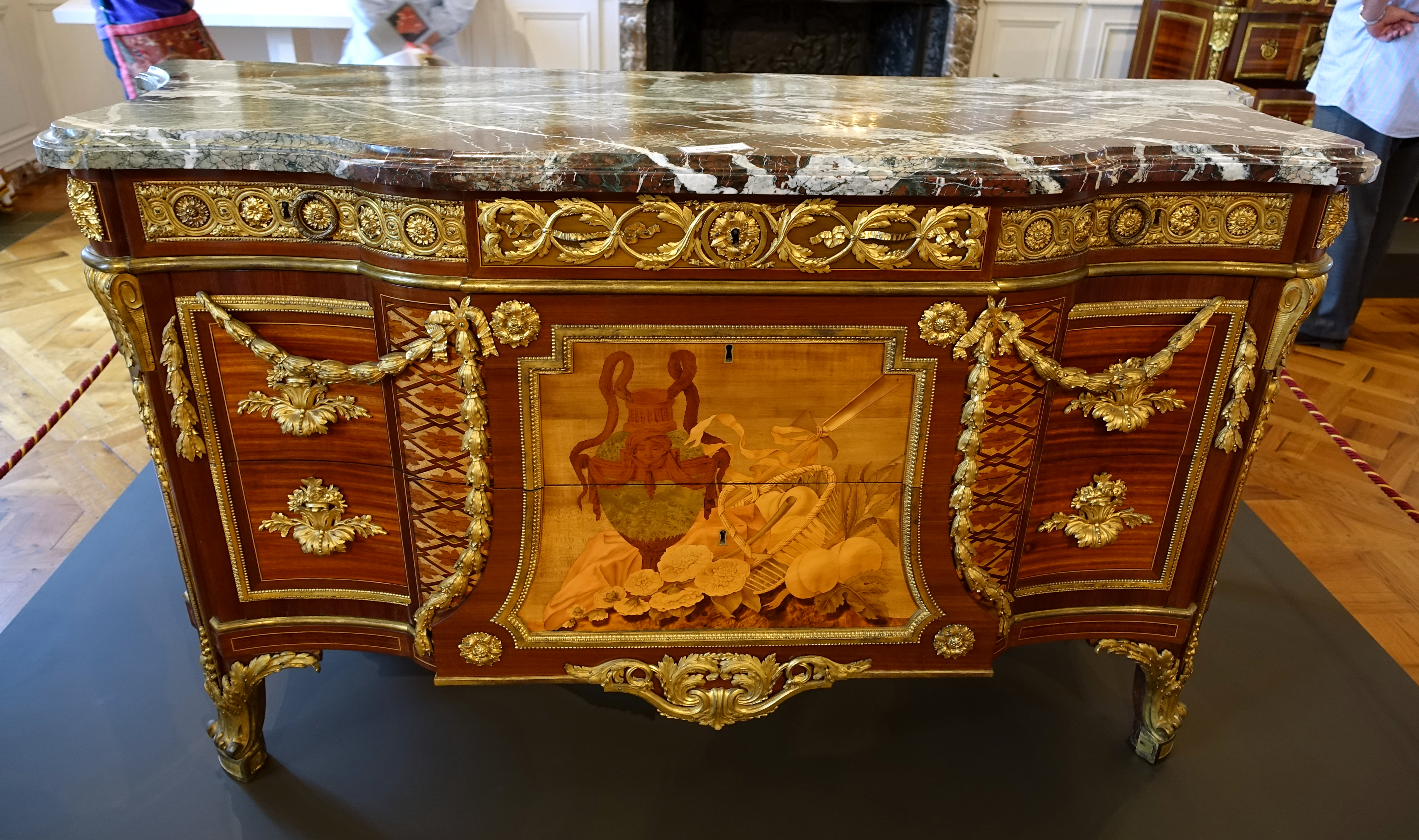 Item in Waddesdon Manor - Buckinghamshire, England.